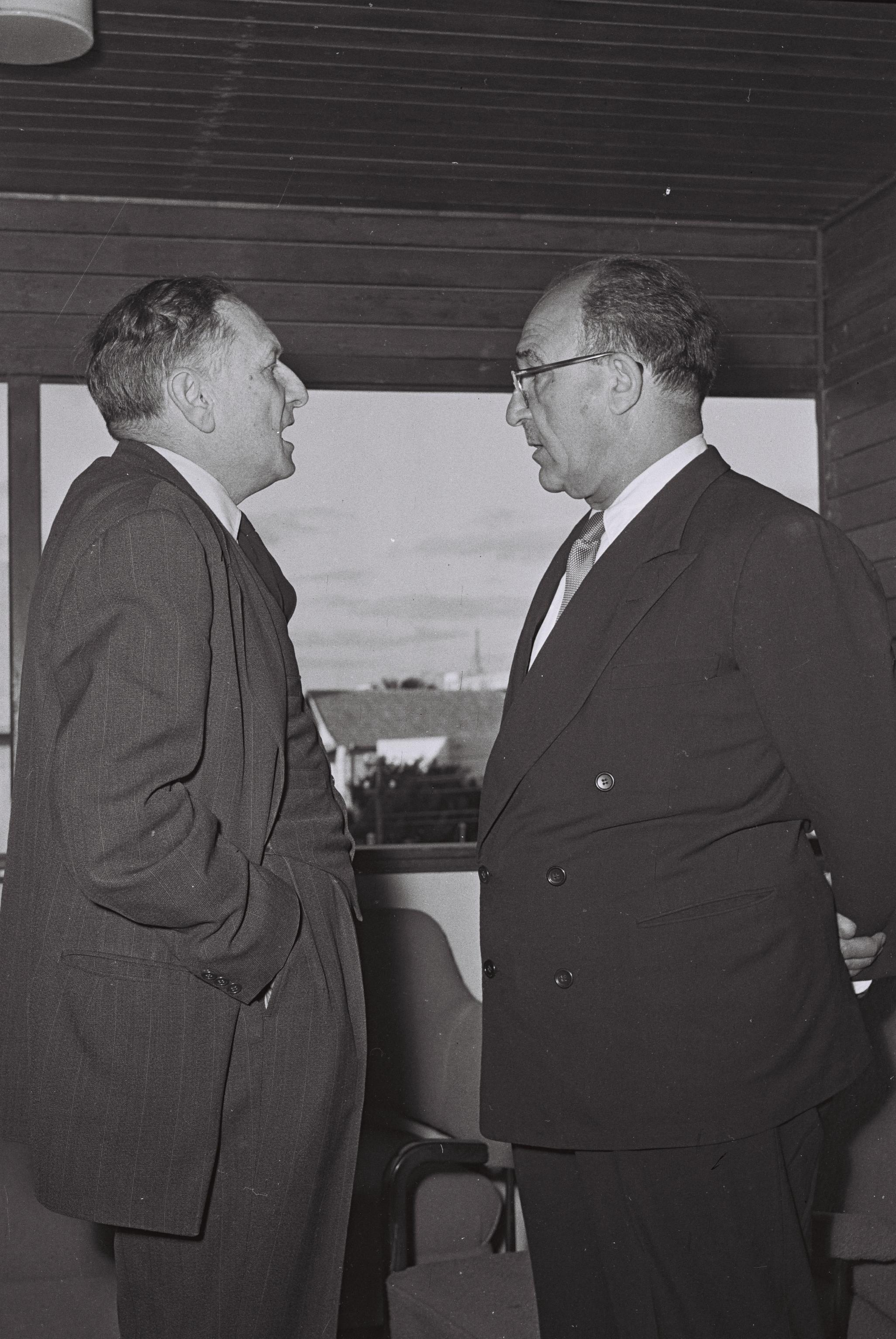 David Horowitz (left), the first Governor of the Bank of Israel, with Levi Eshkol, the Finance Minister. 1956